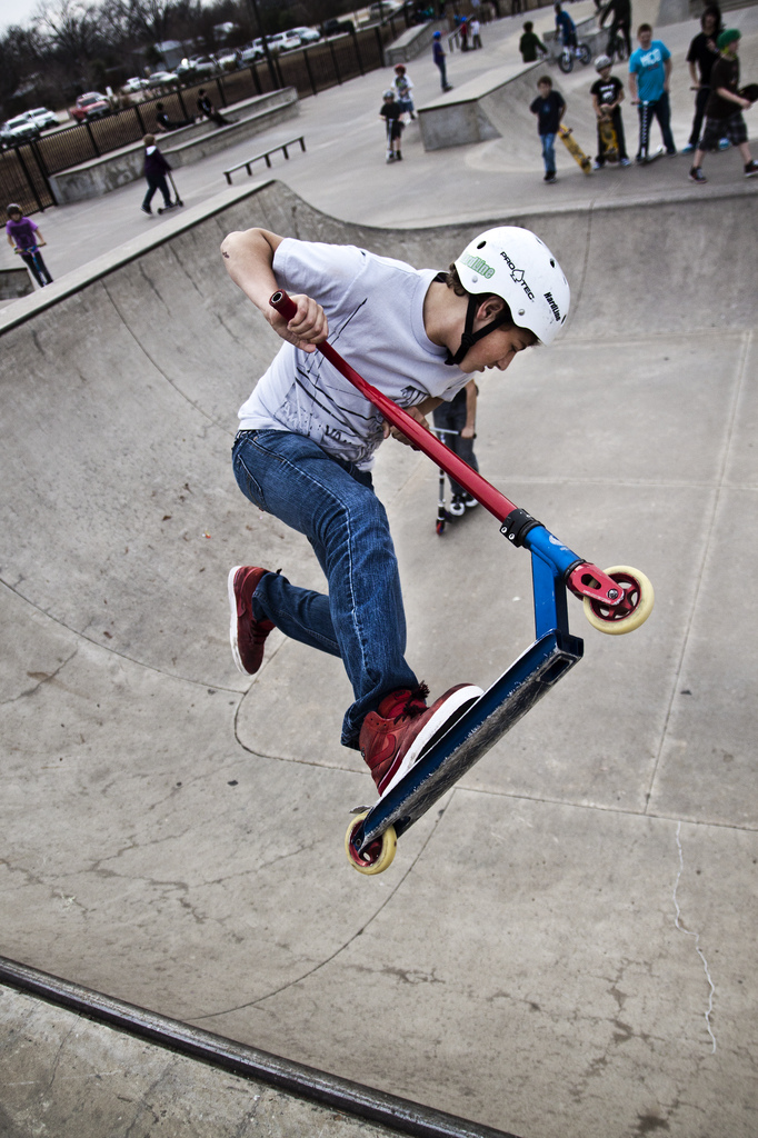 At The Edge @ Allen Station Park